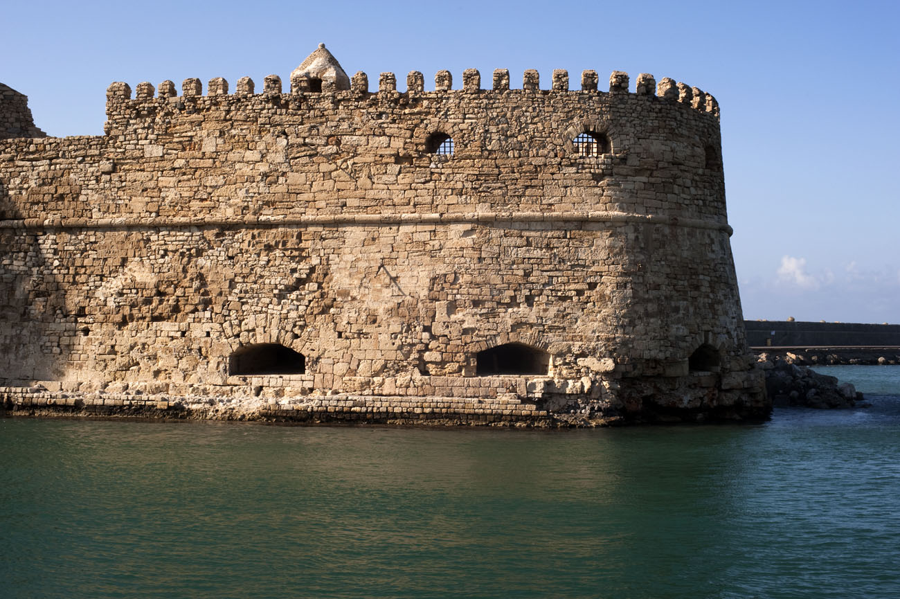 The Venetian fortress Koule (Rocca al Mare) in Heraklion, Crete